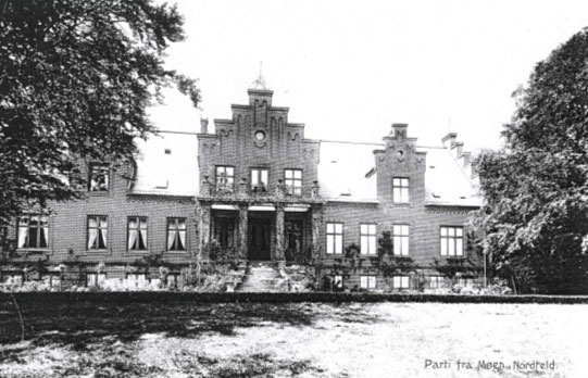 The manor house Nordfeld on Møn in Denmark